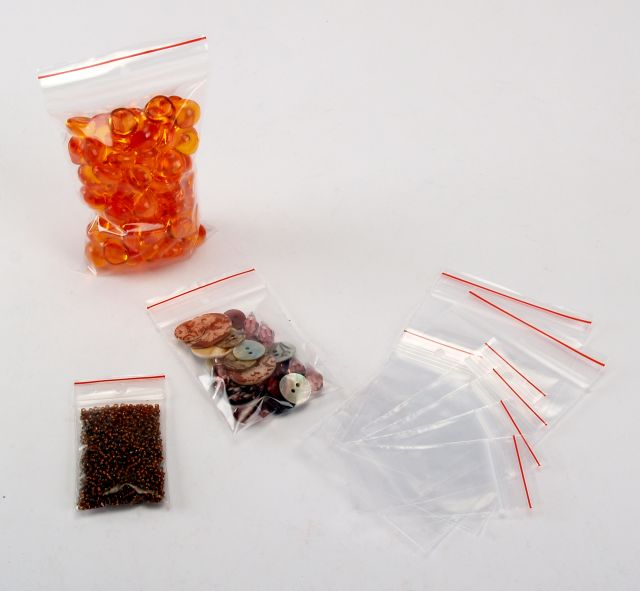 Zip-Lock-Bag-Zipper